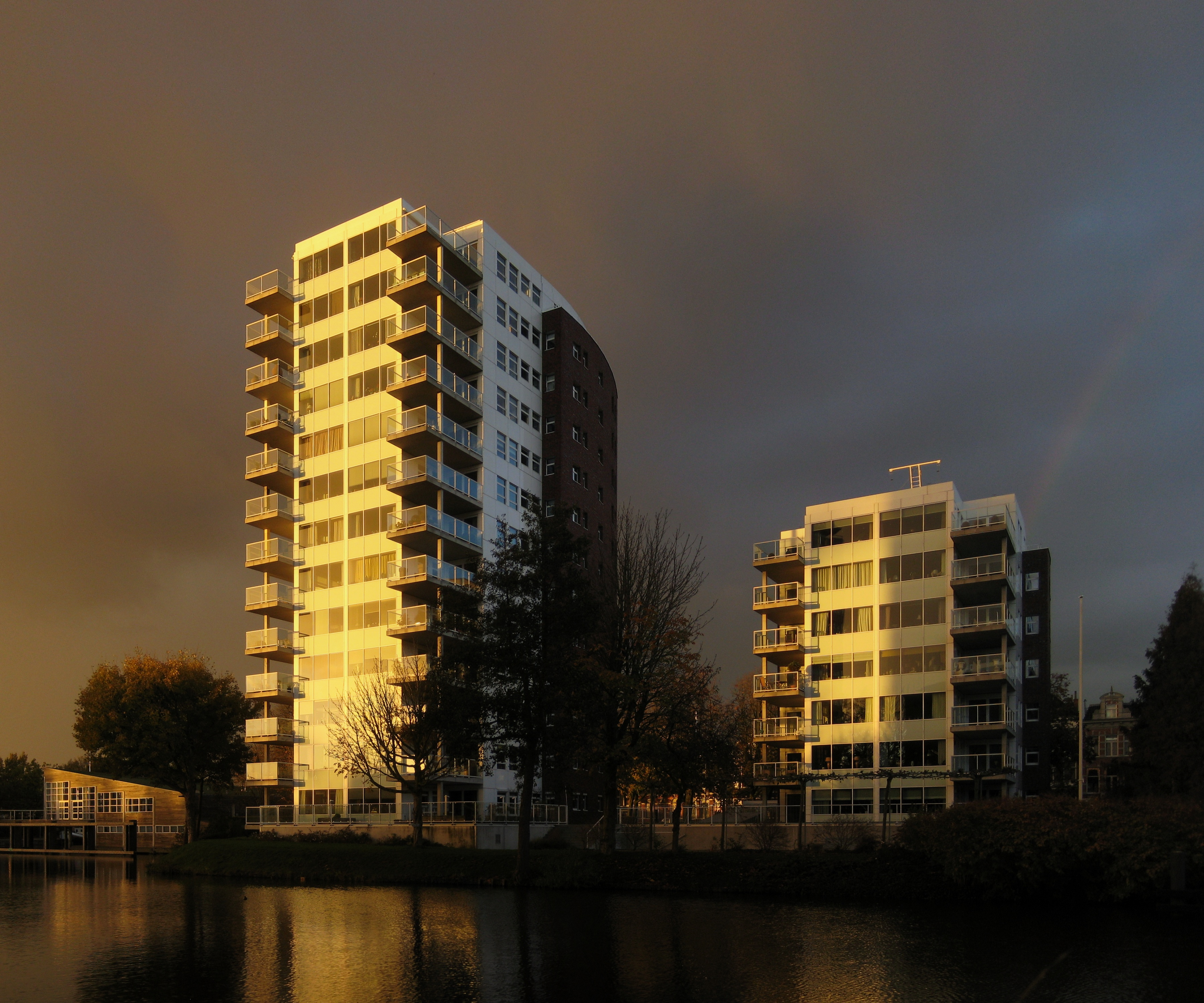 Apartment buildings (1999, Kleihues + Kleihues) in the Dutch city of Groningen.